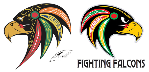 Logo Larceny as seen on Icethetics